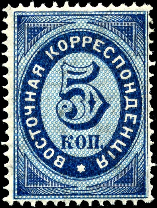 Russian post offices in the Turkish Empire 5k stamp of 1872